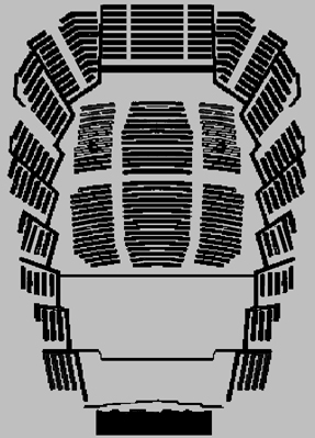 Hall "The friends of Music" in the Megaron, Athens